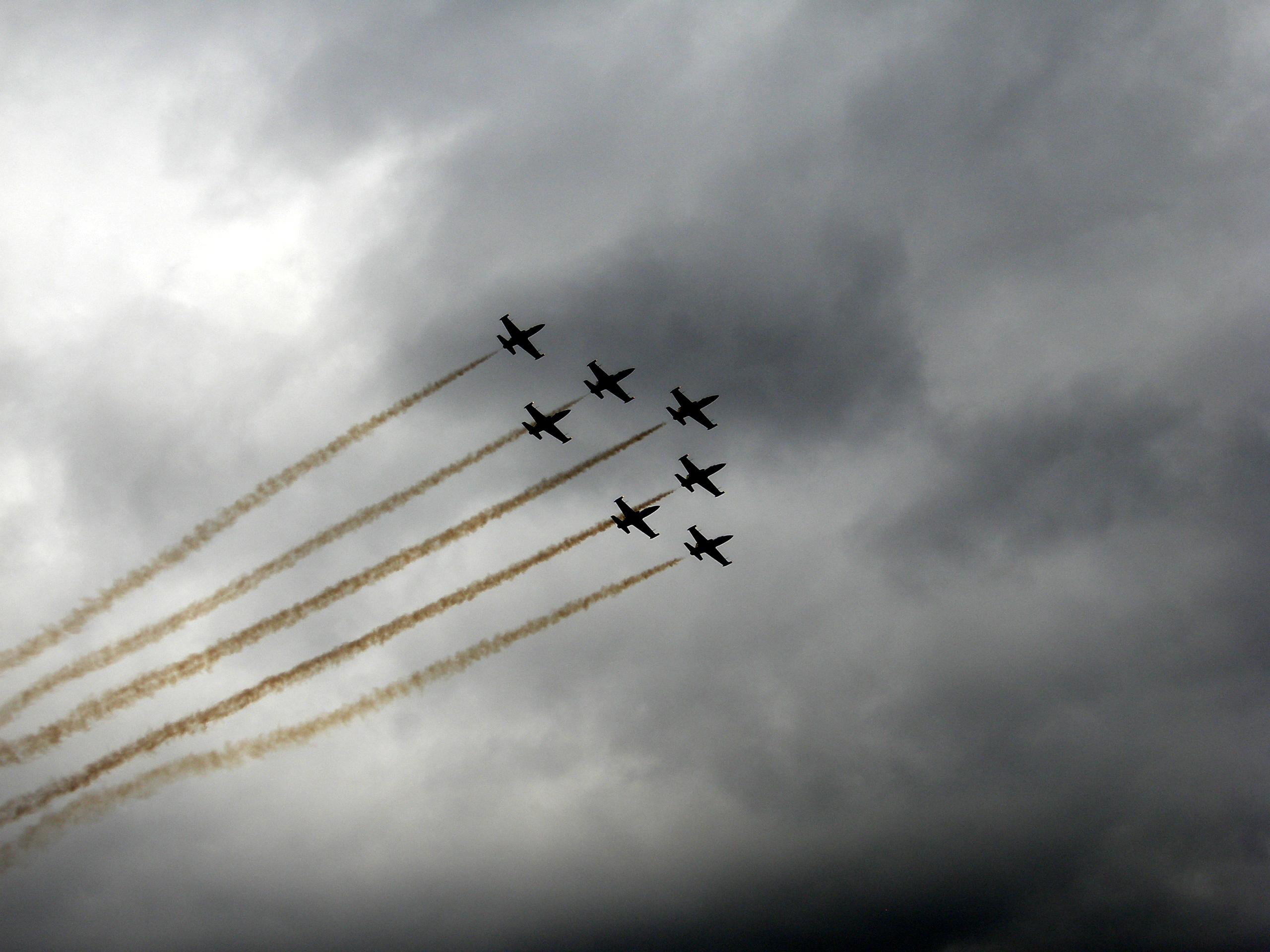 Breitling Jet Team in formation during CIAF 2009 in Hradec Králové